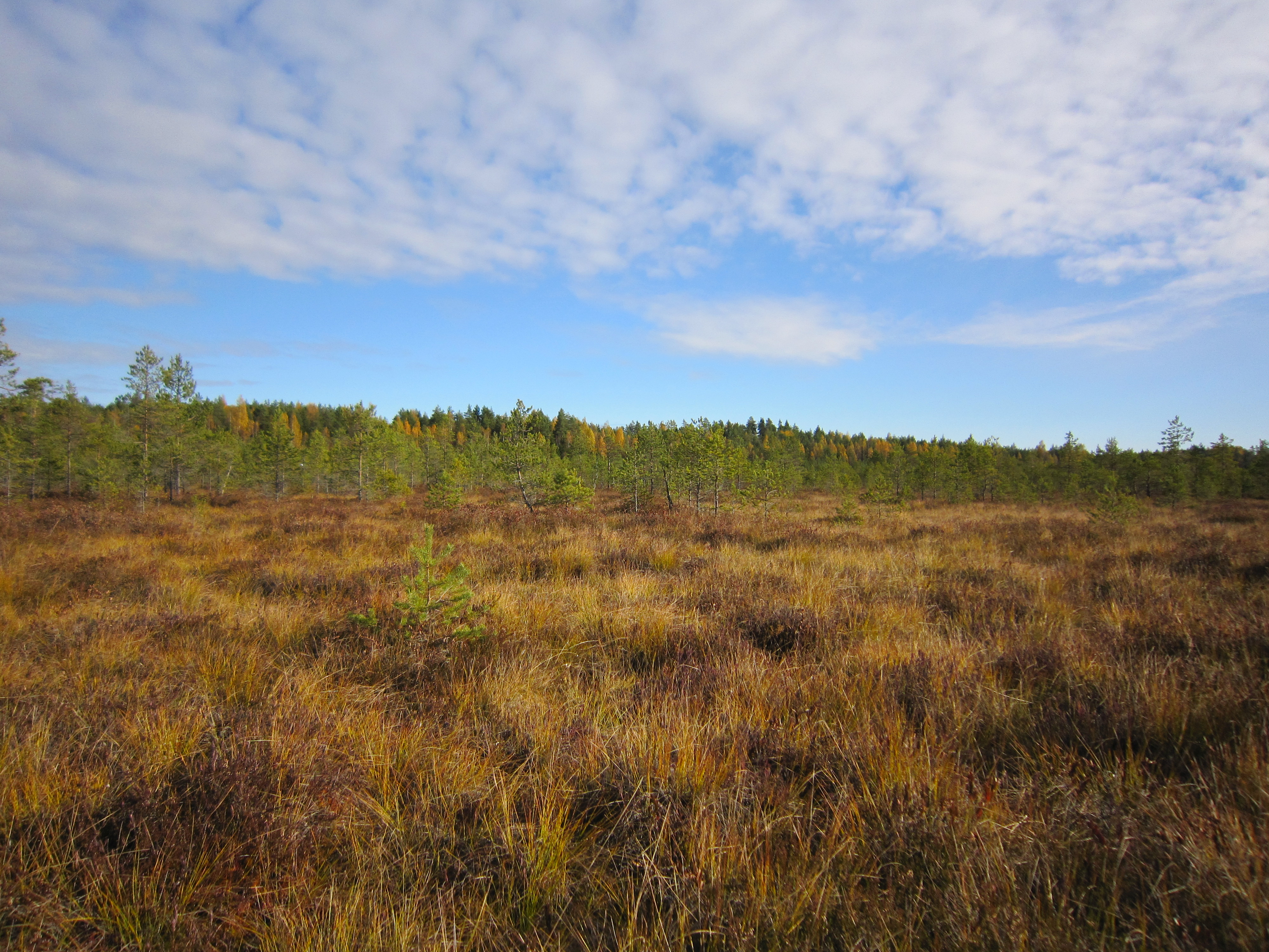 Pähklisaare MKA